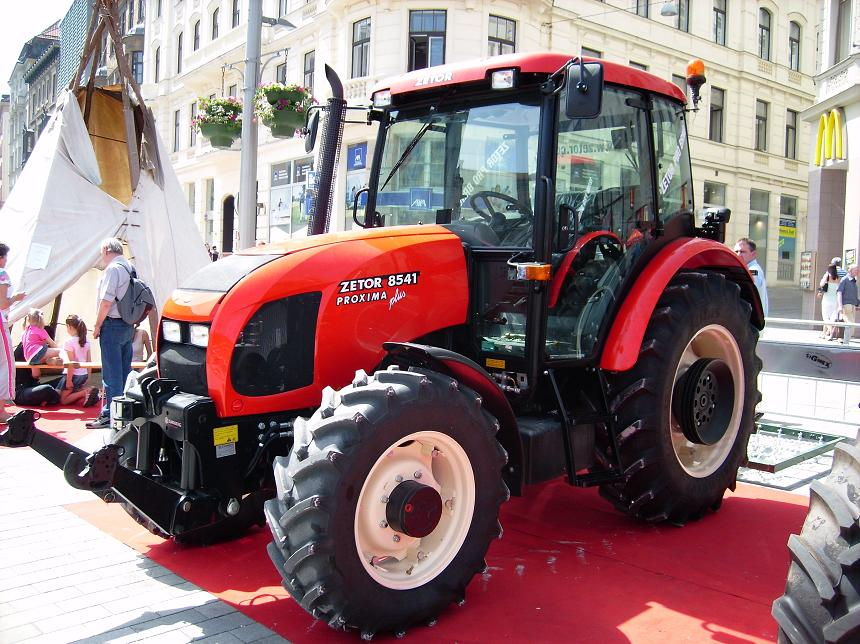 Zetor 8541 Proxima plus